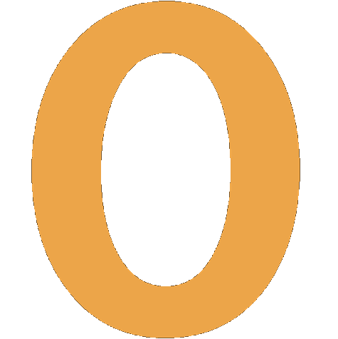 Original Baltimore Orioles logo.